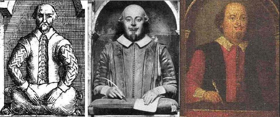 This is a composite image of Shakespeare's funerary monument and its depiction published in William Dugdale's Antiquities of Warwickshire (1656) and in Rev. George Arbuthnot’s A guide to the collegiate church of Stratford-on-Avon (4th ed., 1904) and a painting made in 1748 by John Hall.